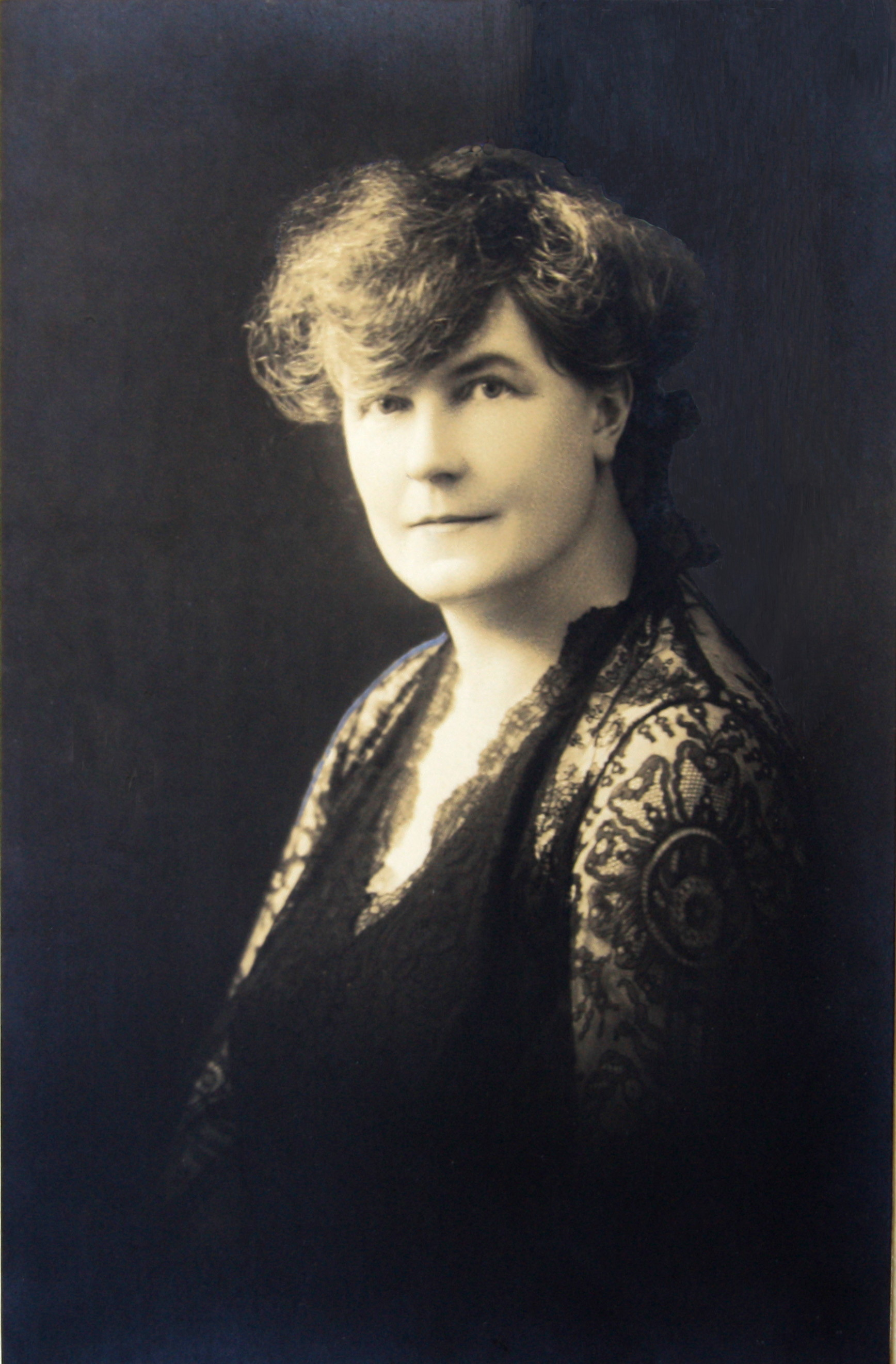 Tilly Fleischmann (1882-1967) was an Irish pianist and teacher of German descent. She is the author of "Tradition and Craft in Piano-Playing", Dublin 2014